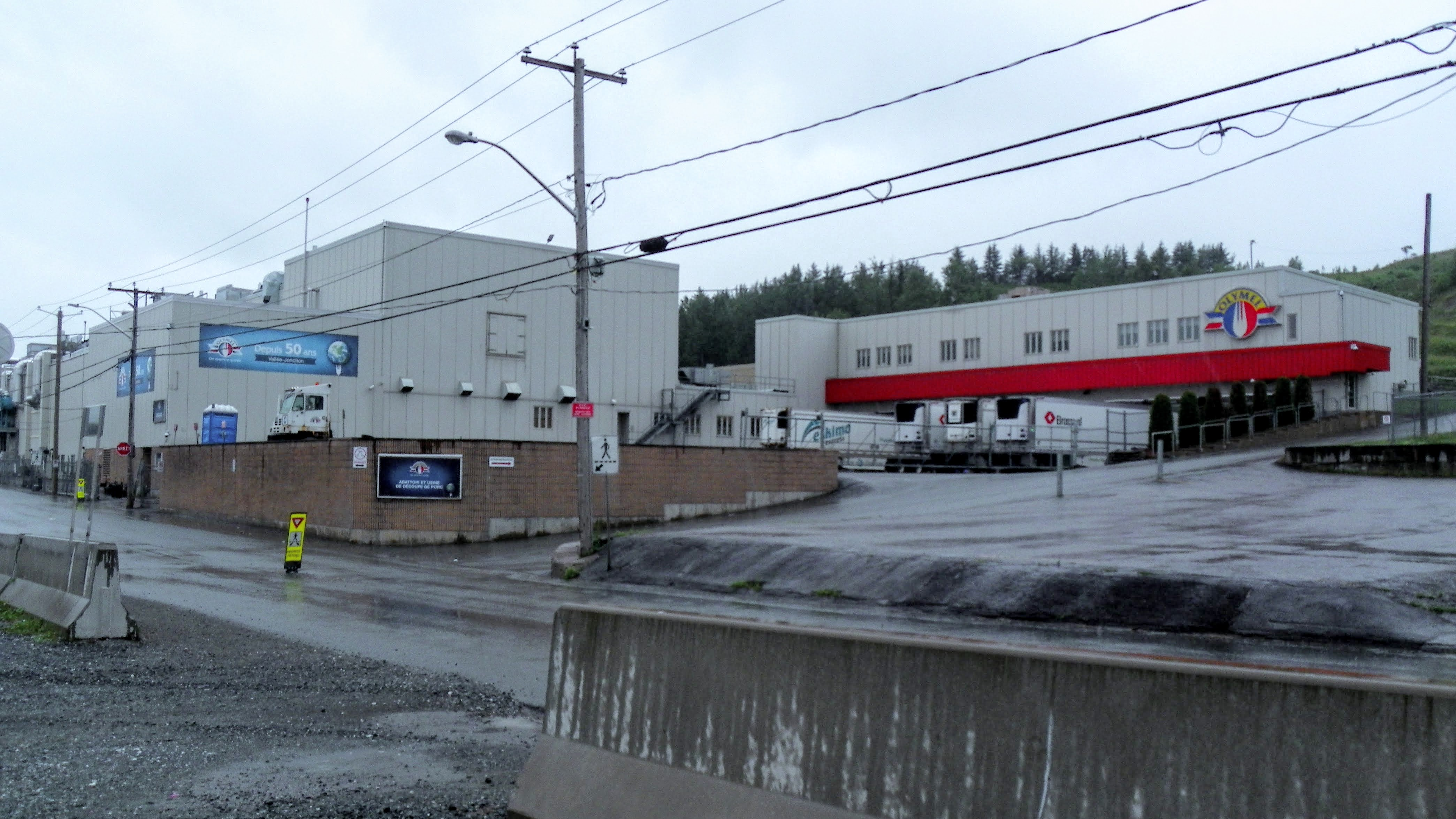 Olymel swine slaughterhouse in Vallée-Jonction, Québec.